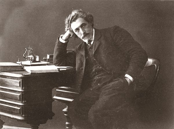 S. An-ski